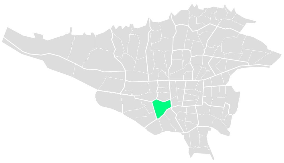 Region 17 of Tehran